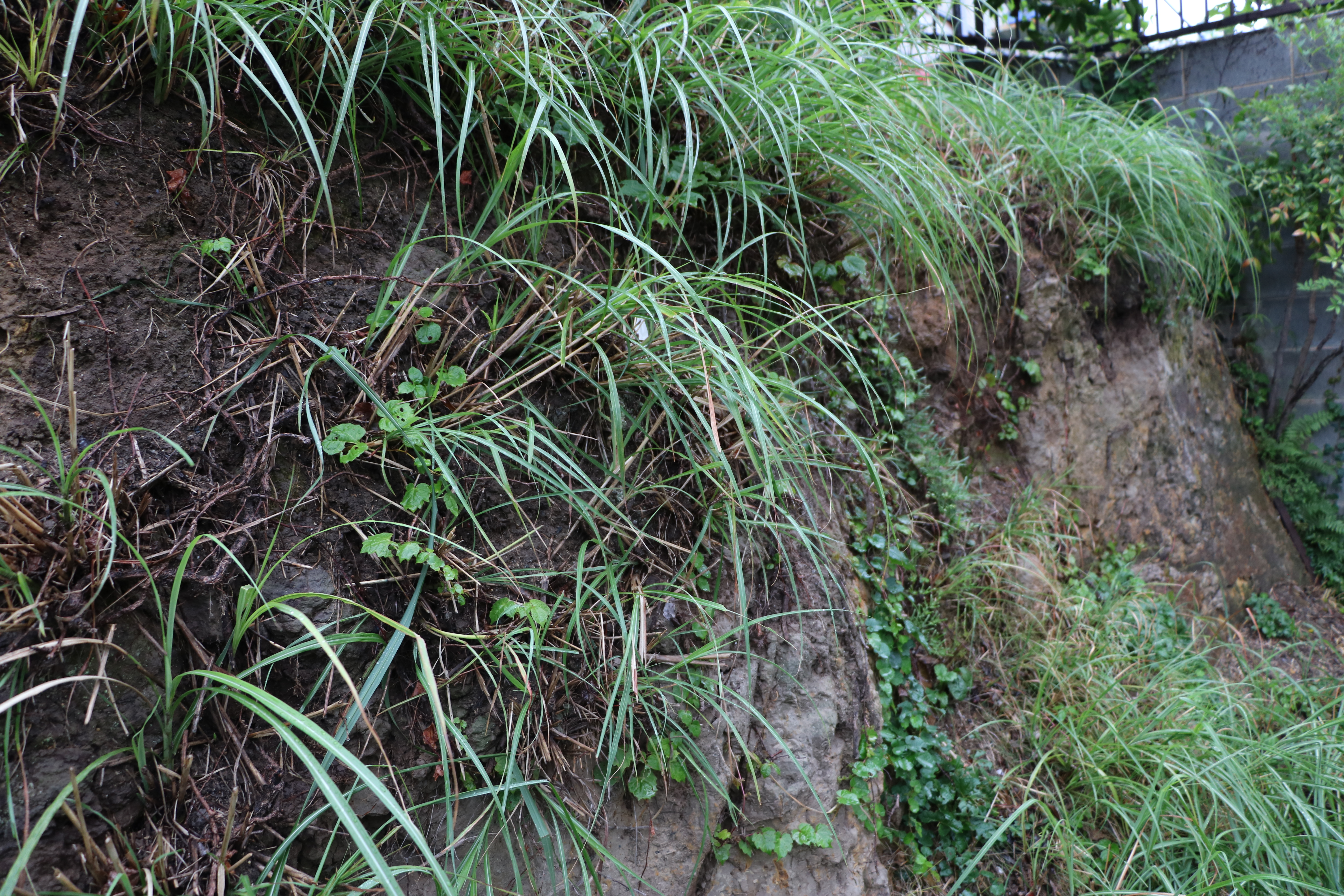 Higashiyama Pleistcene Strata containing plant fossils, natural monument of Japan.